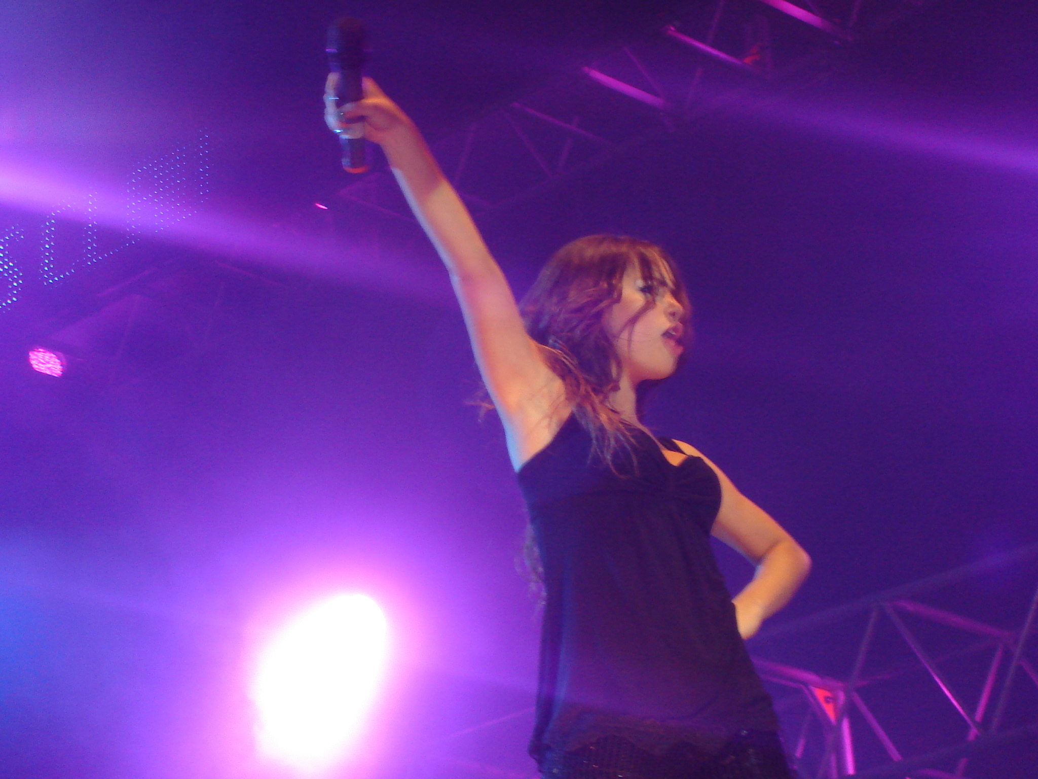 Mariana Espósito Plaza Moreno, La Plata, August 2011.